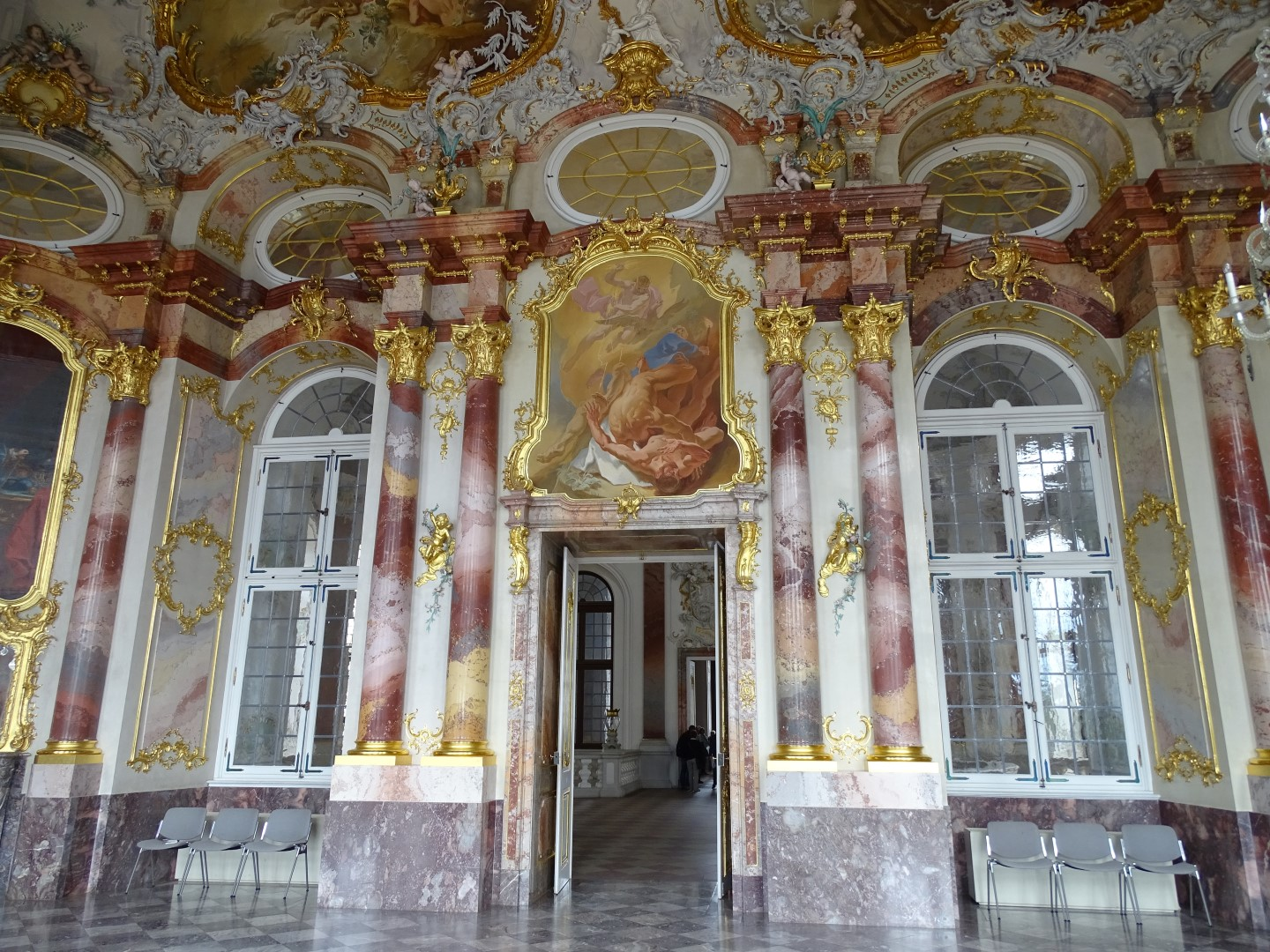 The interior of the castle Bruchsal, marble or royal hall